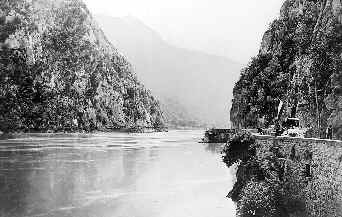 Kazan Gorge with the Szechenyi Road